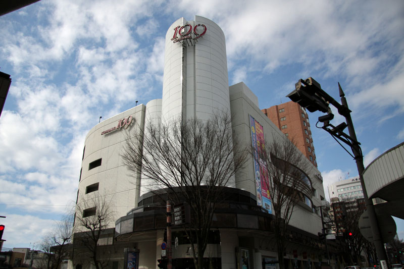 KOHRINBO109 in Kanazawa, Ishikawa, Japan